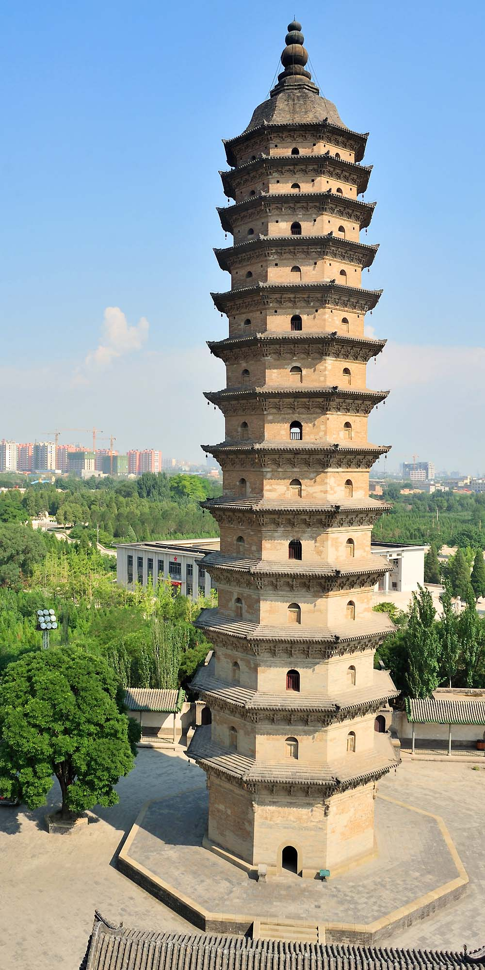 Taiyuan (Shanxi, China) Yongzuo temple east pagoda, taken from west pagoda.